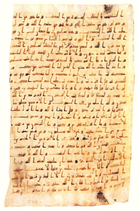 Qur'anic Manuscript written in Hijazi script. Sūrah āl-‘Imrān, verses 34-184.